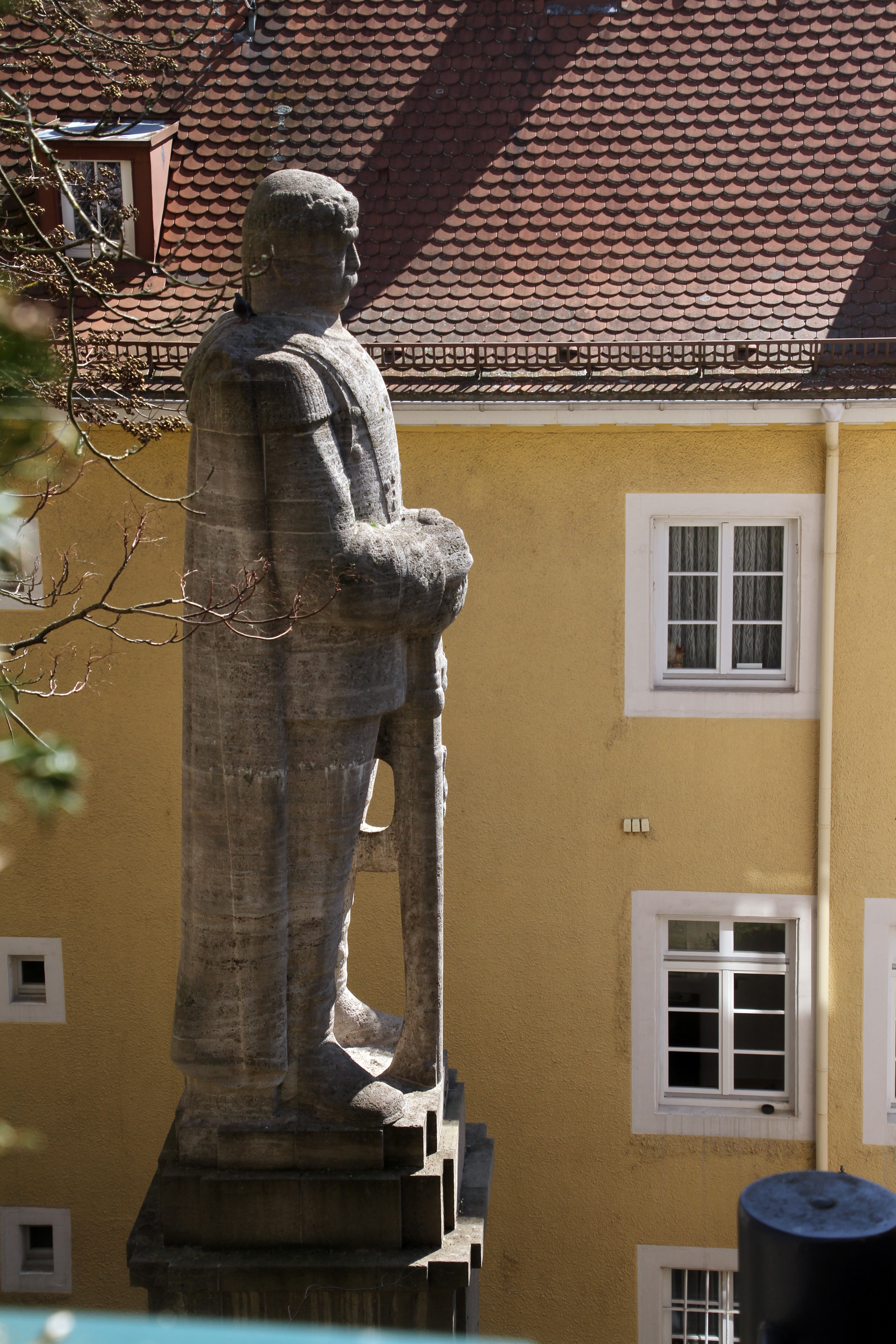 Statue of Reichskanzler Otto von Bismarck by Oskar Alexander Kiefer (1874-1938) at the Jesuitenstaffeln in Baden-Baden, built 1915 to the 100th birthday of Bismarck.